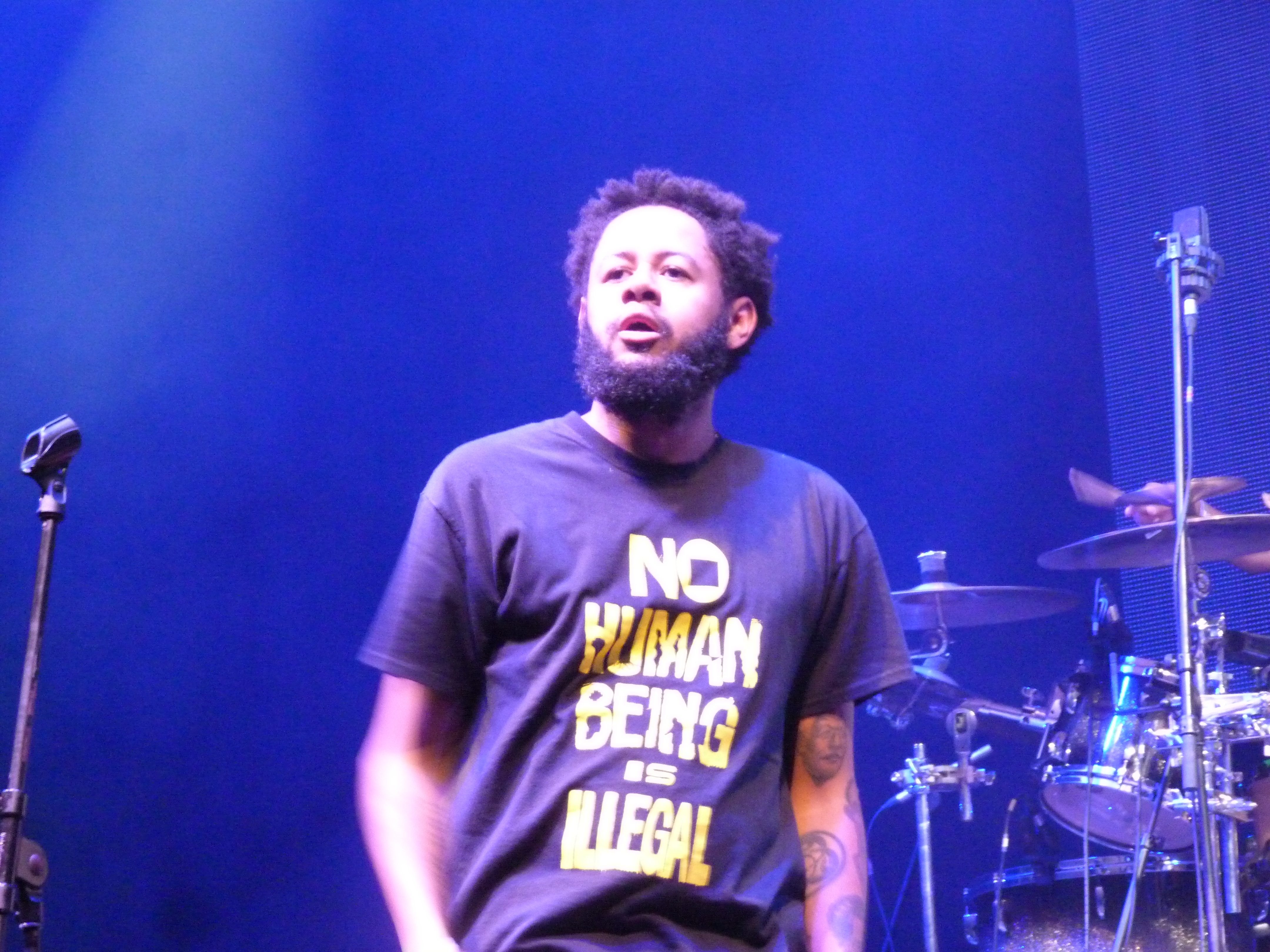 Live on the 23rd of October, 2015. WOMEX 15, Budapest, Hungary.